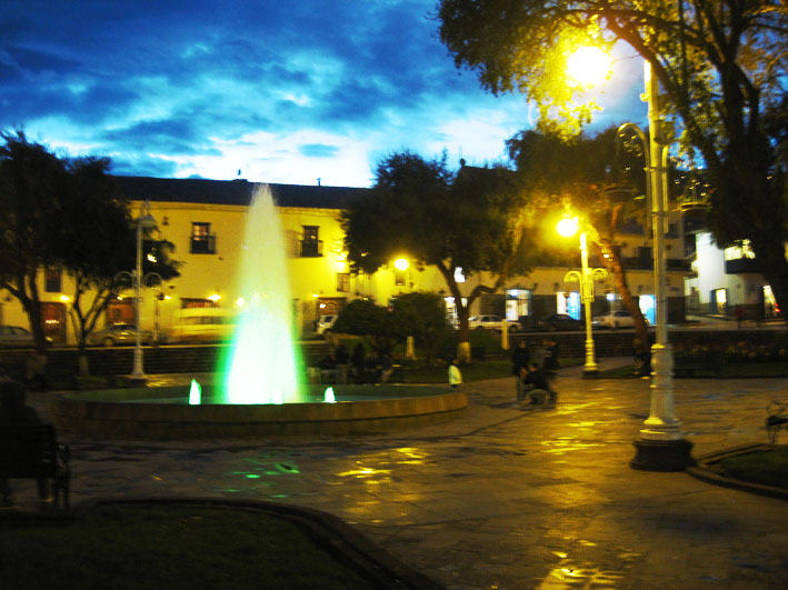 Night View of Plaza Regocijo, Cusco